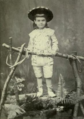 The later King Alexander of Servia at the age of six, 1882, published in 1903.